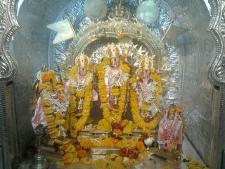 sajjangad ramdas